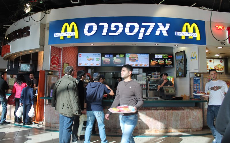 Kosher McDonald's